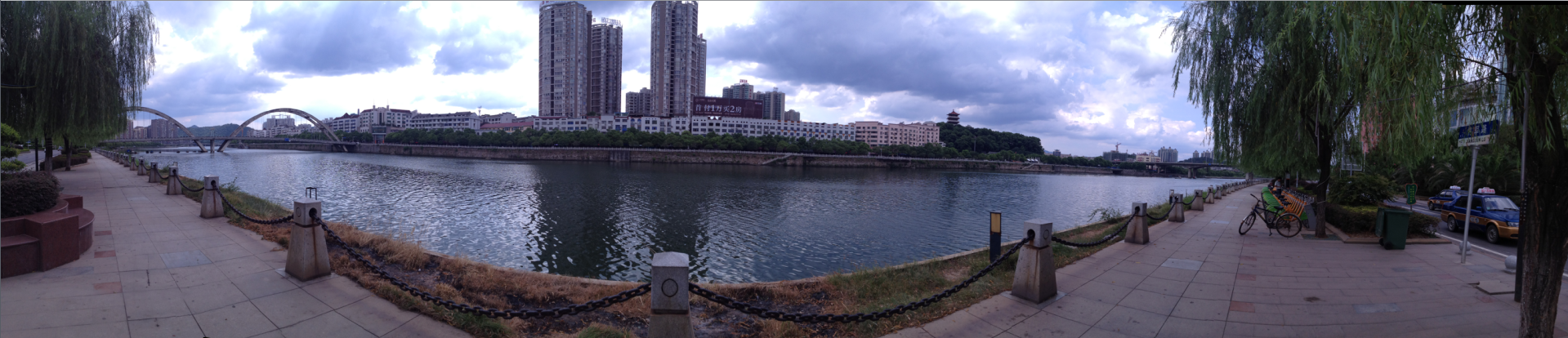 View from the riverside.